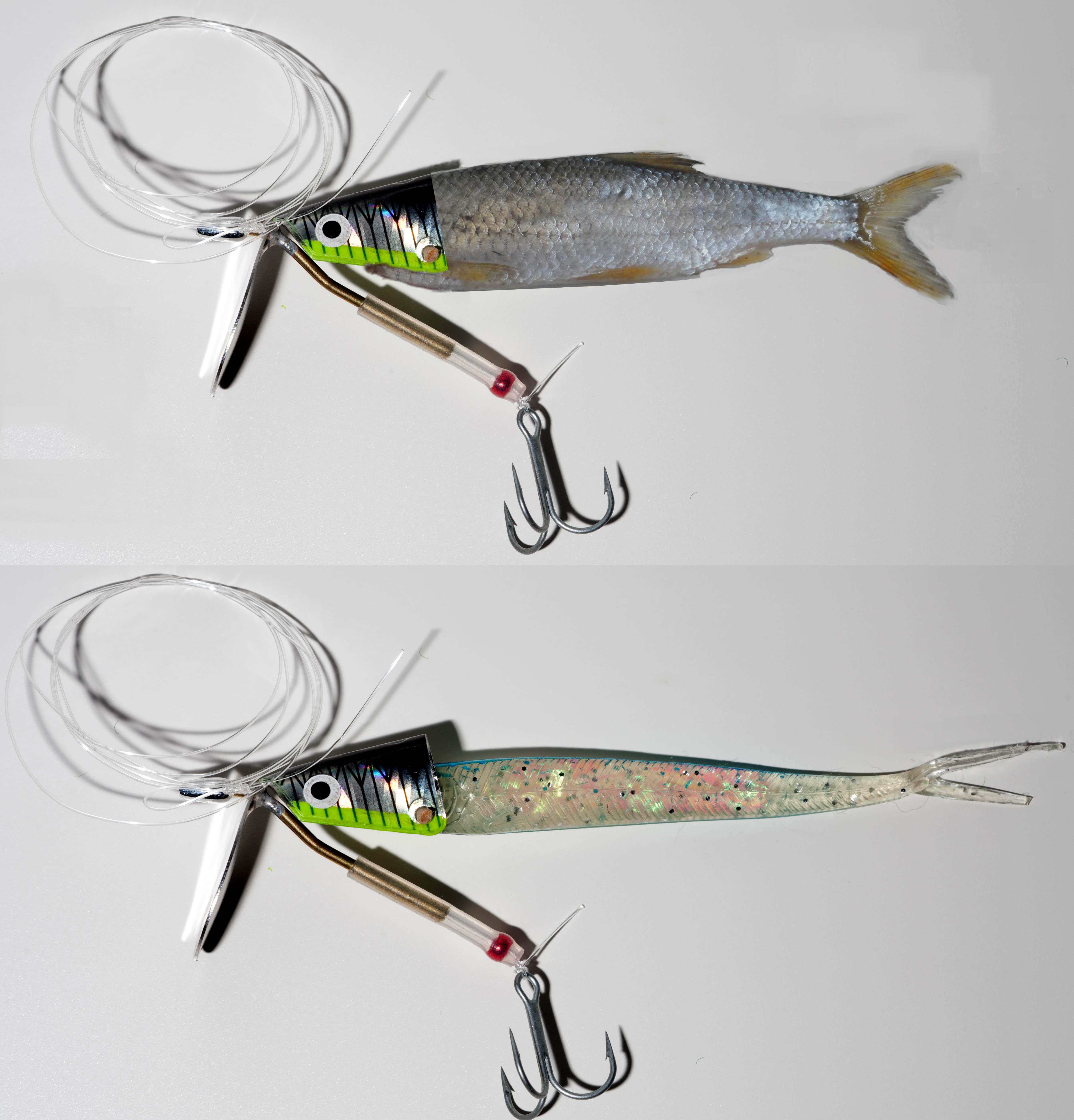 Shows fishing lure , new type of realistic wobbler with several options. Real fish oder softshad can be used.